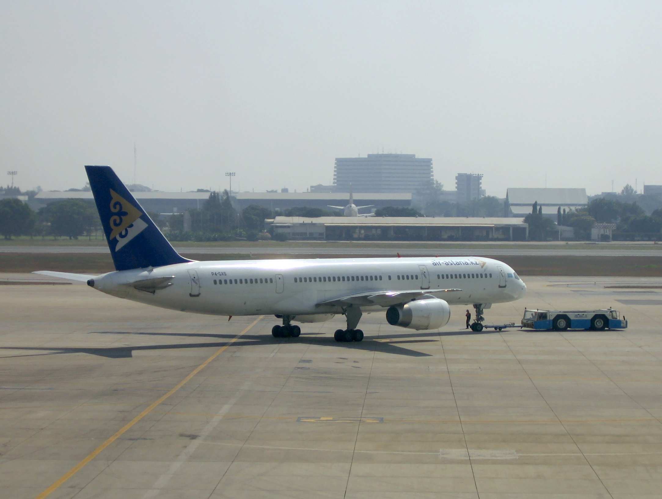 Air Astana Boeing 757 (P4-GAS) at Don Mueang International Airport.